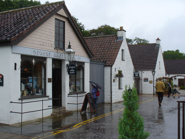 Baxter's Visitor Centre Old style buildings containing shops selling whisky, wine and fine Baxter's foods to the tourists.